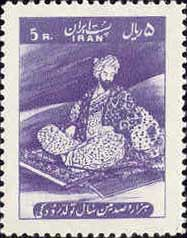 The Persian Poet Rudaki on Iranian stamp, of his 1100's anniversary.